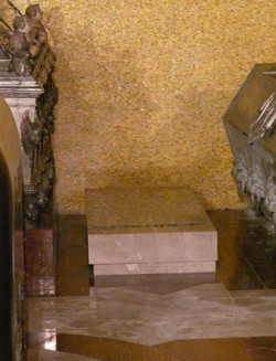 Rudolph I of Bohemia and Rudolf II, Duke of Austria